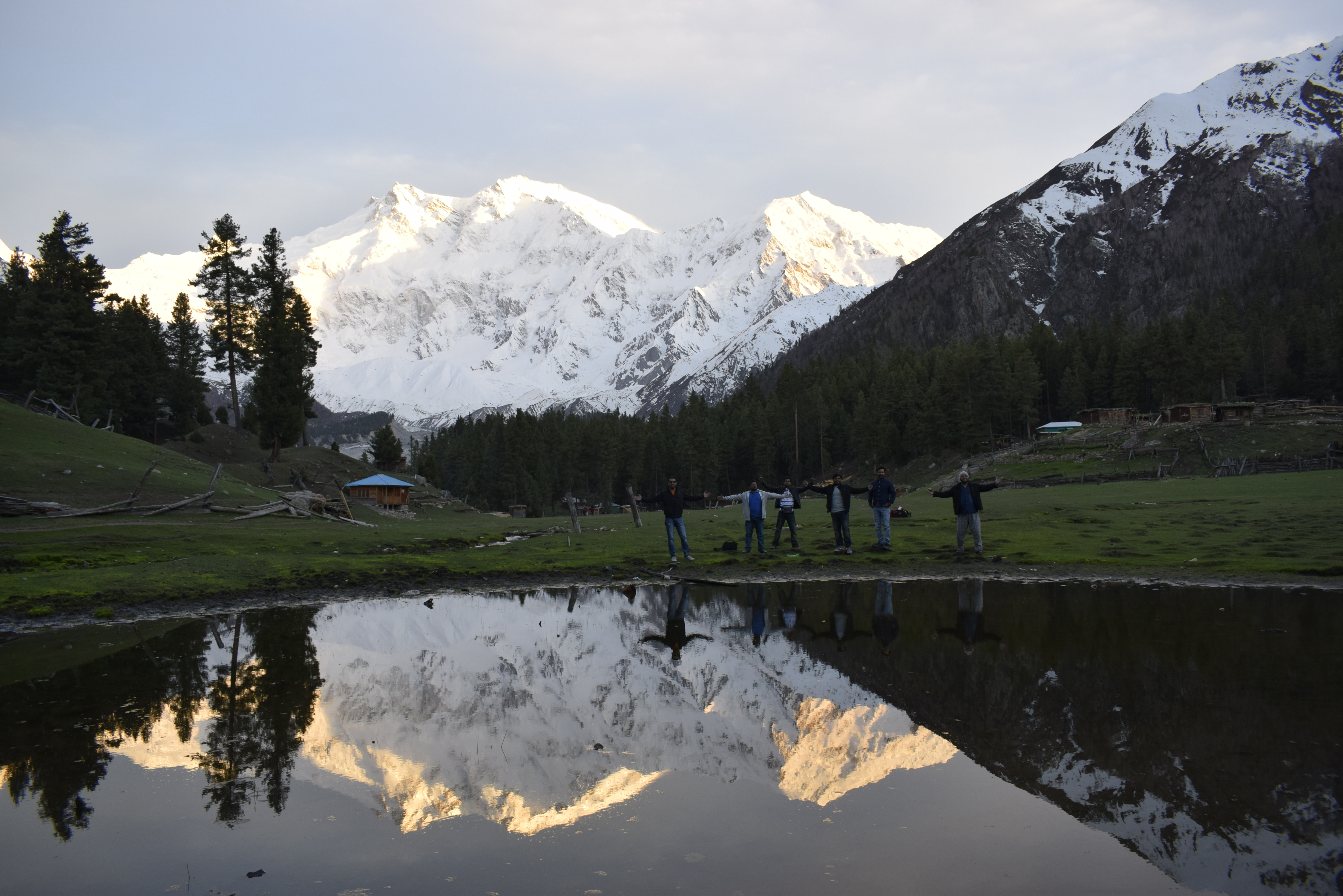 a view of nanga parbat from fairy meadows